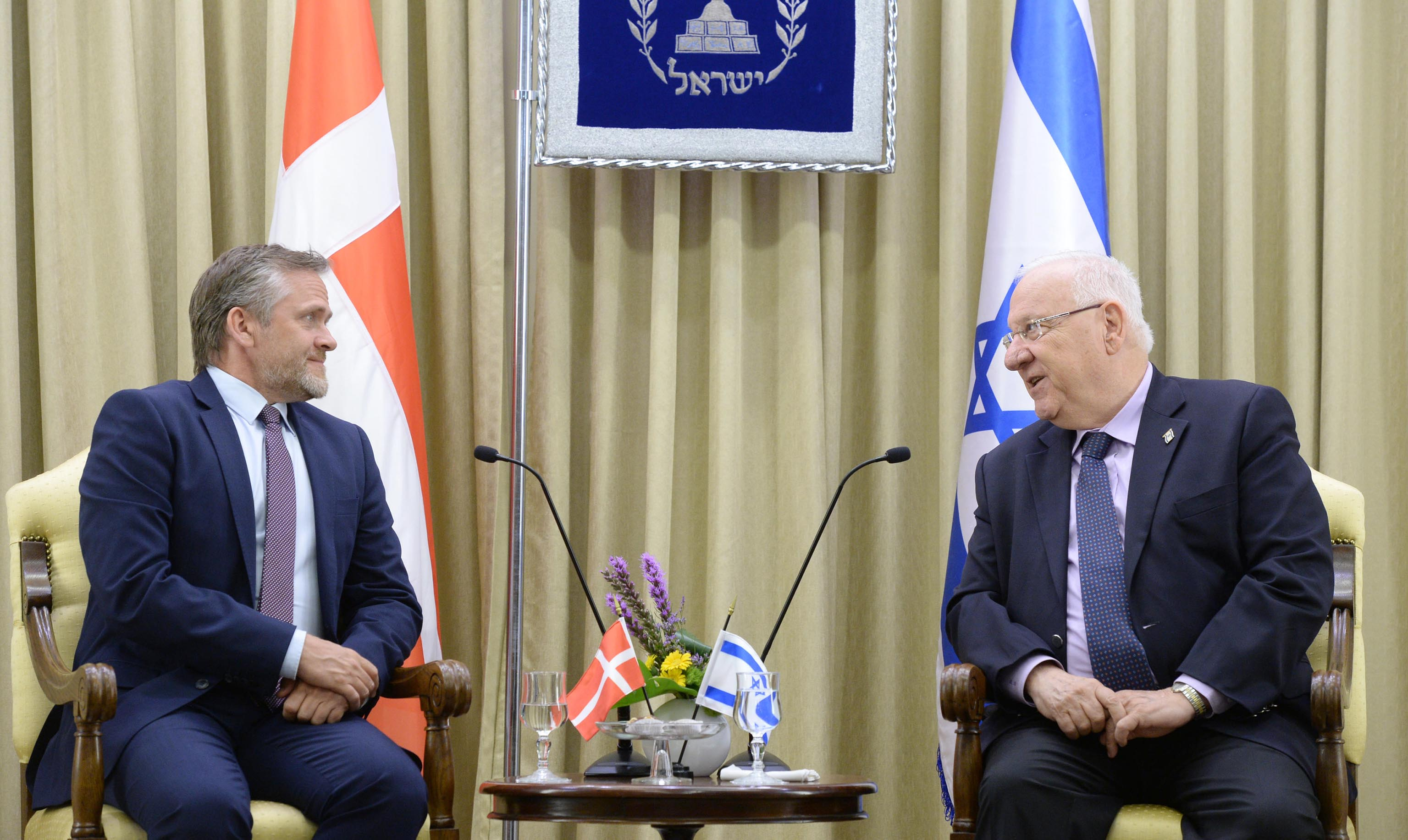 President Reuven Rivlin met with the Danish Foreign Minister and later with the Minister of Foreign Affairs of Costa Rica, who visited Israel for the first time. Wednesday, May 17, 2017. Photo Credit: Mark Neyman / GPO